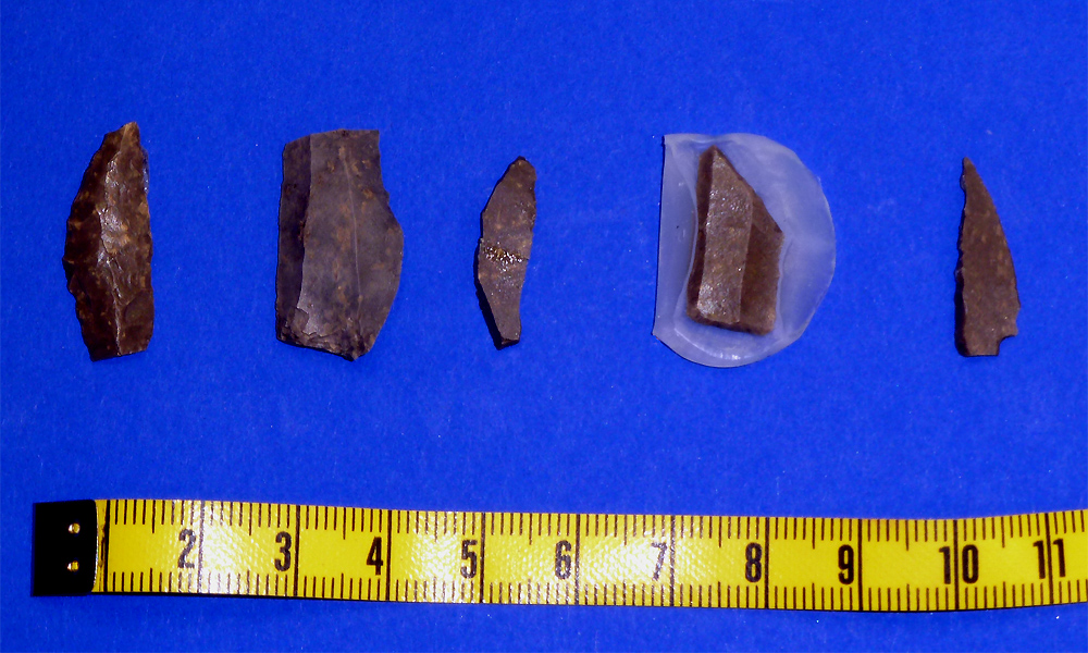 Microliths (Wommersom quartzite) Collection Prehistoric Archeology K.U.Leuven